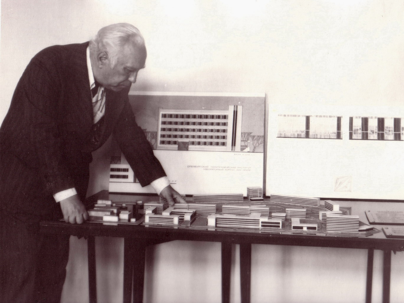 Aleksander Adolfovich Burba looking the project of the Orenburg Polytechnic Institute campus (1972).